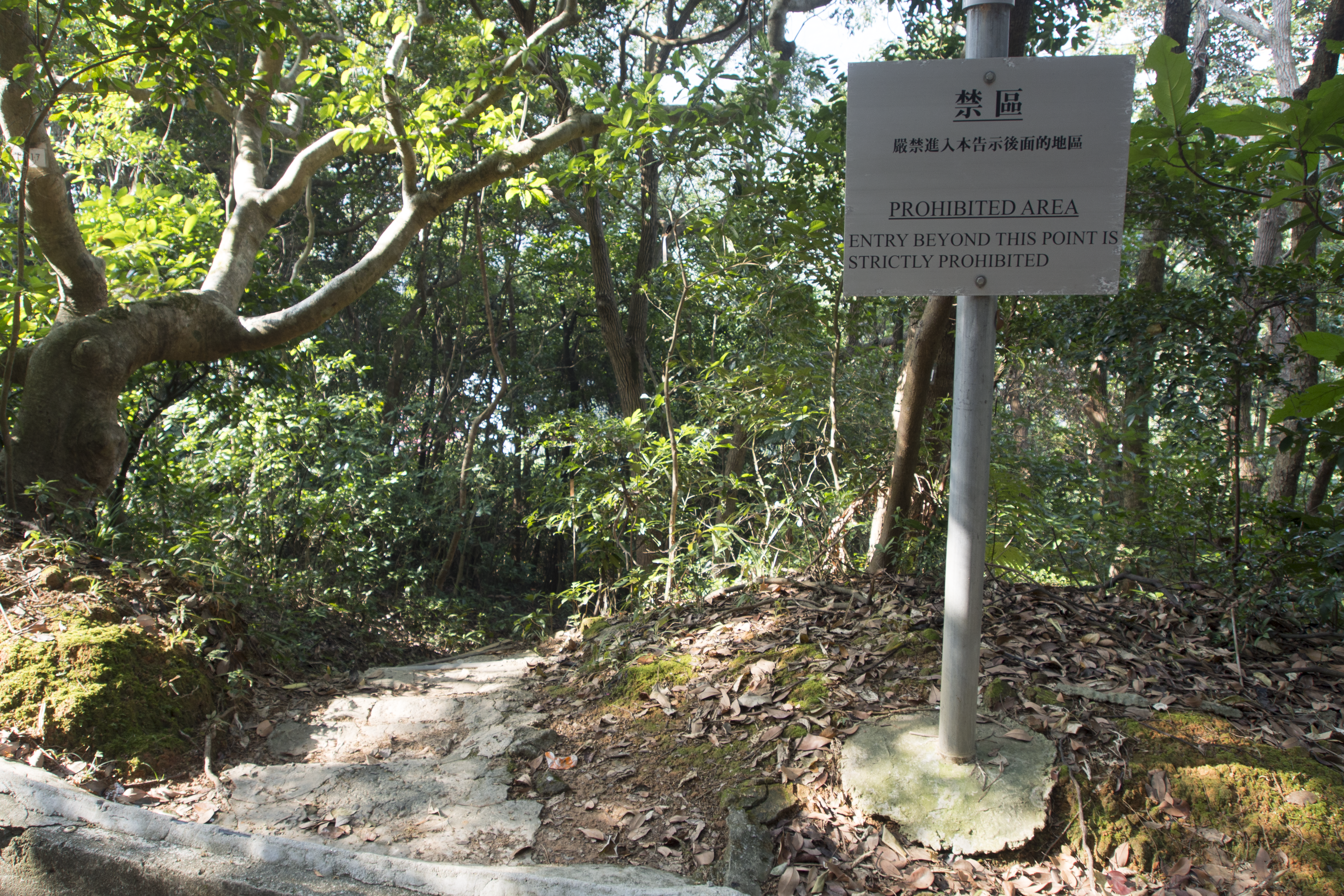 Sai Wan Fort Morning Trail - Unofficial Path 1 Exit. Starting point is beside Water Bumping Station.